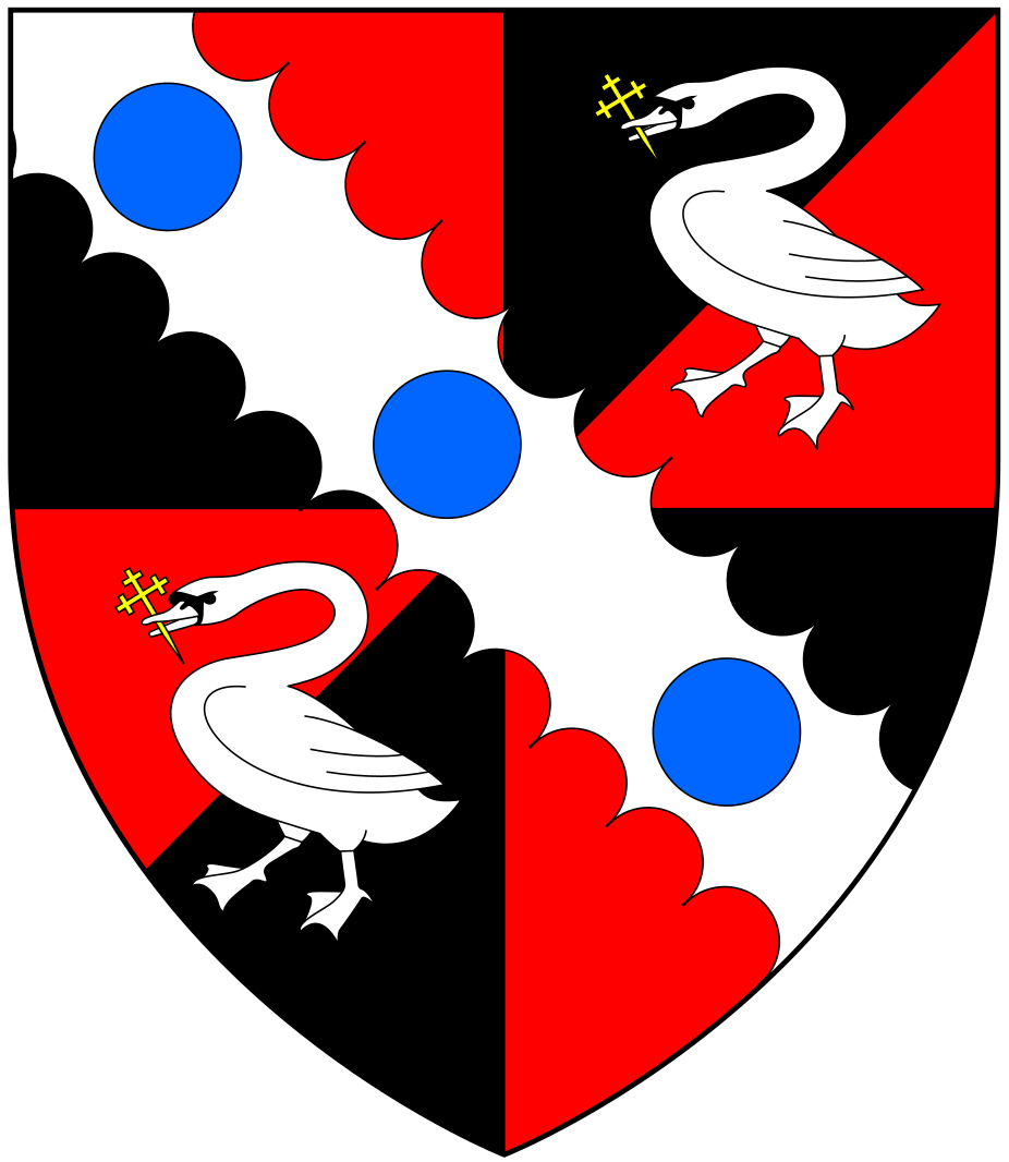 Arms of Coblegh family of Brightley in the parish of Chittlehampton, Devon: Gyrony of eight gules and sable, between two swans argent each holding in his beak a cross crosslet fitchée on a bend engrailed argent three hurts. The swans are probably "cobs", male swans, making these canting arms. (Source: Baring-Gould, Sabine & Twigge, Robert, An Armory of the Western Counties (Devon and Cornwall): From the Unpublished Manuscripts of the XVI Century, published by J.G. Commin, 1898, p.11[1]; Gyronny of six according to Pole, Sir William (d.1635), Collections Towards a Description of the County of Devon, Sir John-William de la Pole (ed.), London, 1791, p.476)